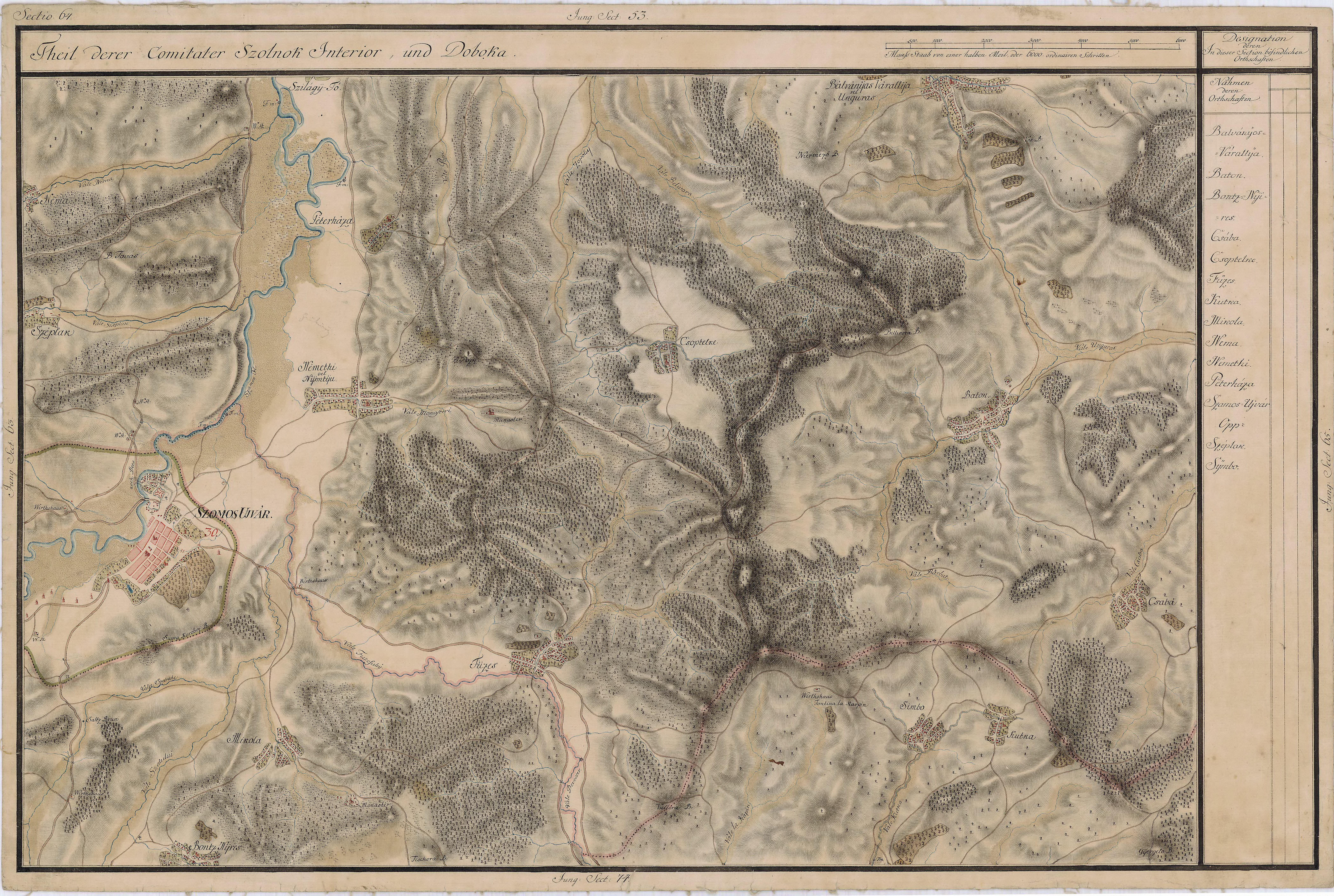 Grand Duchy of Transylvania, 1769-1773. Josephinische Landaufnahme pg.064